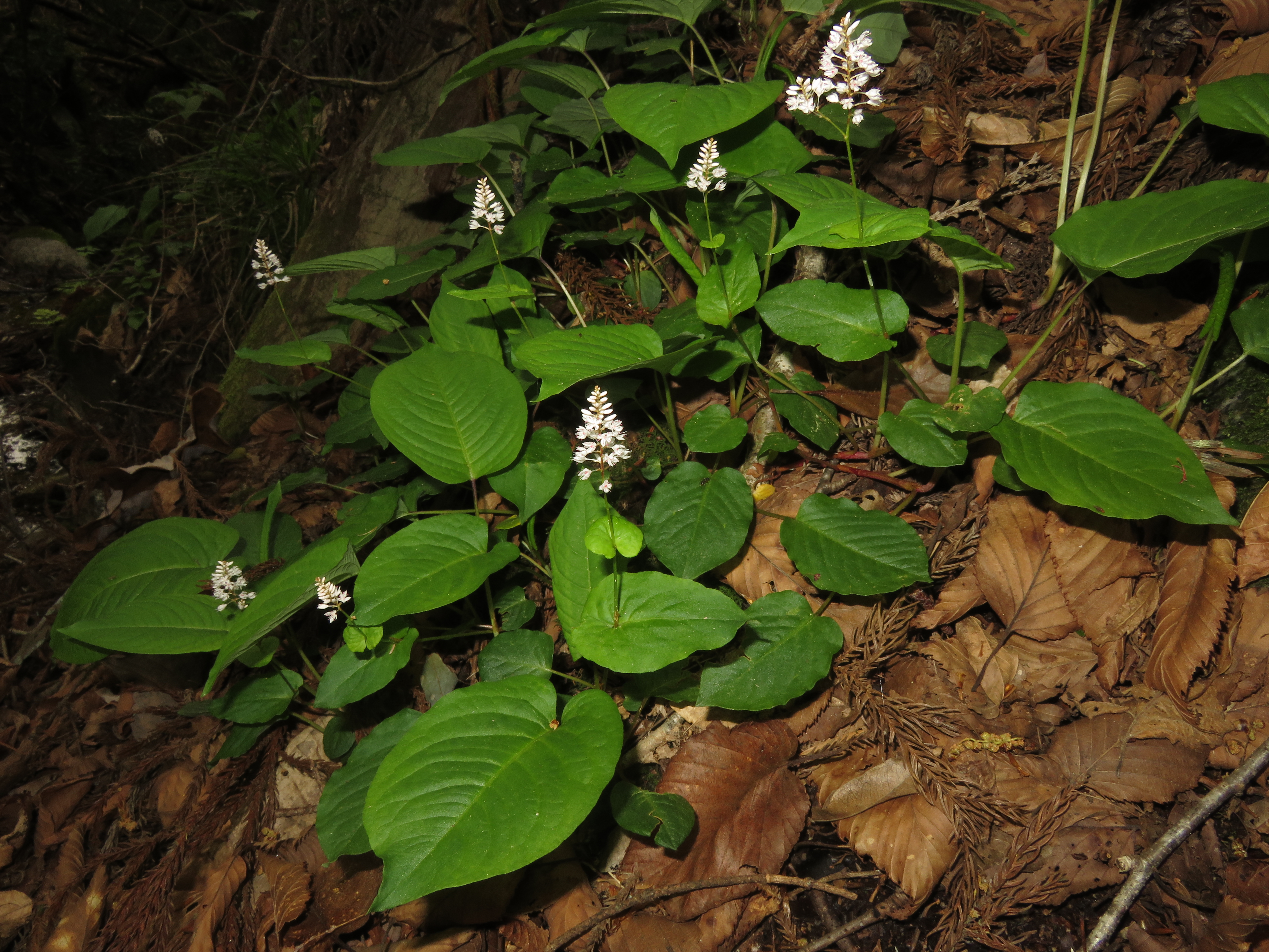 Bistorta abukumensis, Hama-dori area, Fukushima pref., Japan